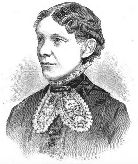 Susan Hammond Barney (Mrs. J. K. Barney)